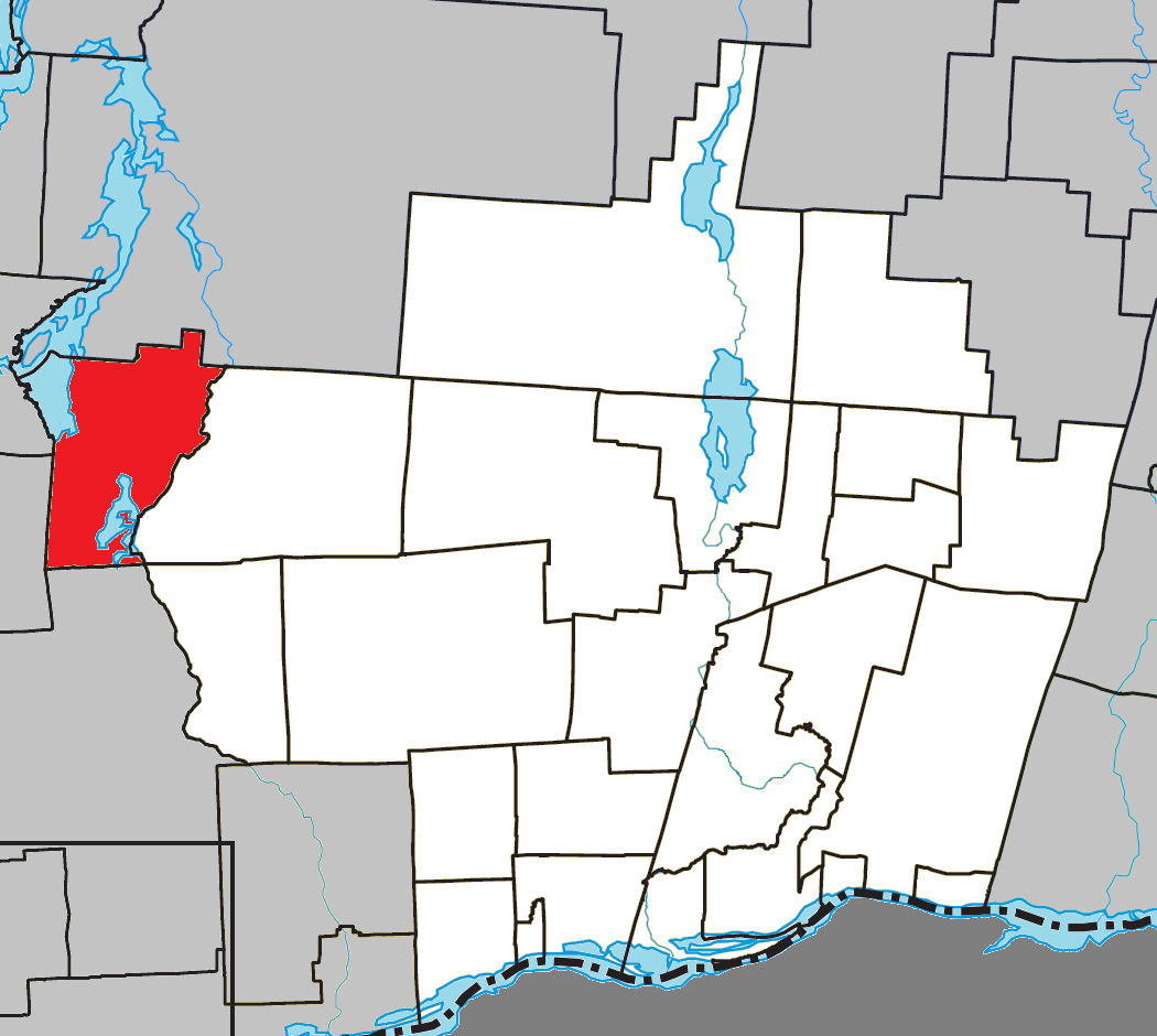 Location of Bowman, Quebec within Papineau Regional County Municipality.